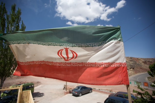 Iranian flag in Abyaneh mountain village